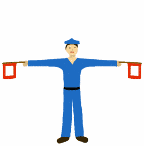 Letter R of the nautical semaphore flag signalling system Source: Martin Hawlisch (User:LosHawlos) My own drawing done in gimp First uploaded to de: in jun-2004 Other version: File:Arm span - 01.png